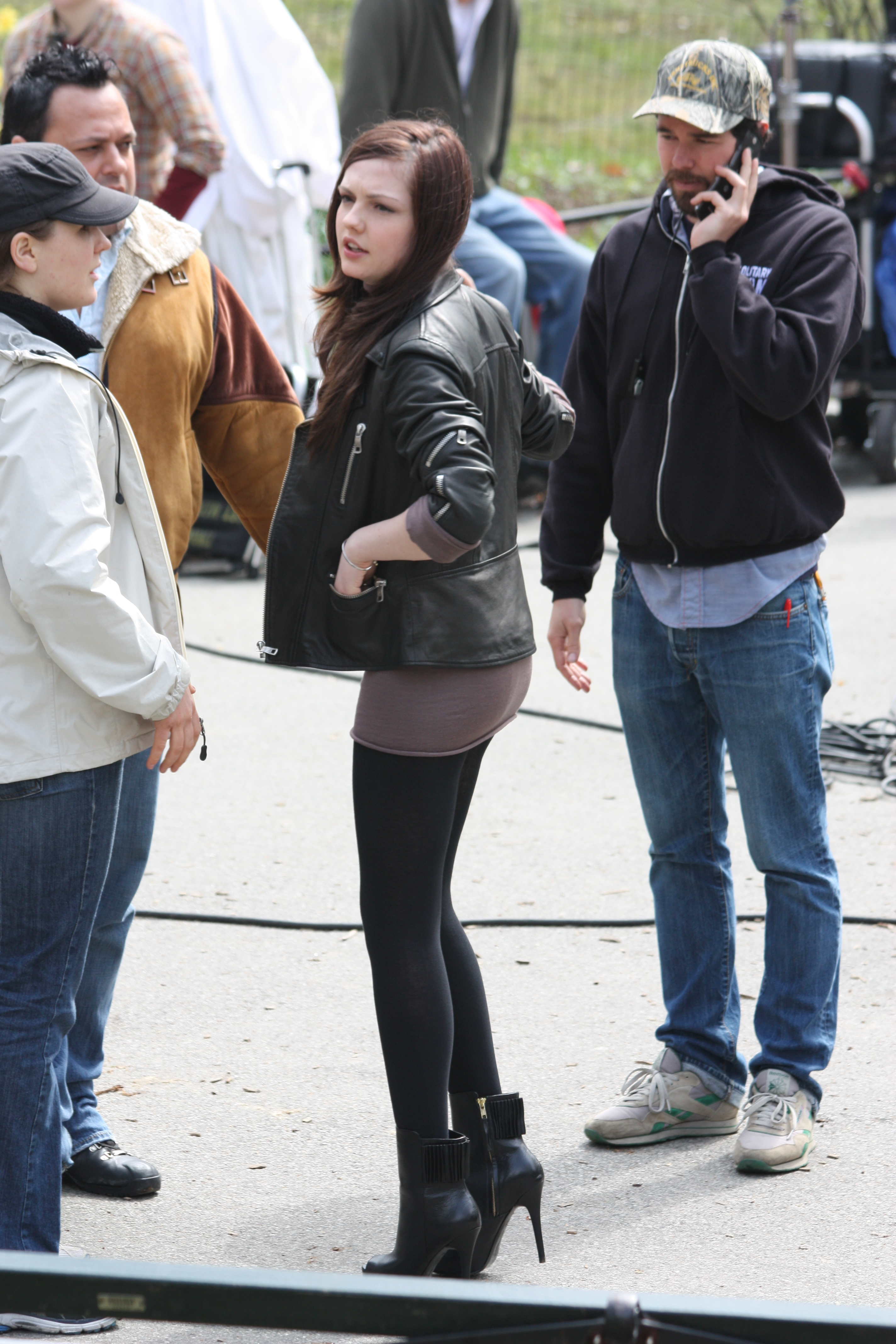 Actress Emily Meade filming Twelve (film) in Central Park in 2009.